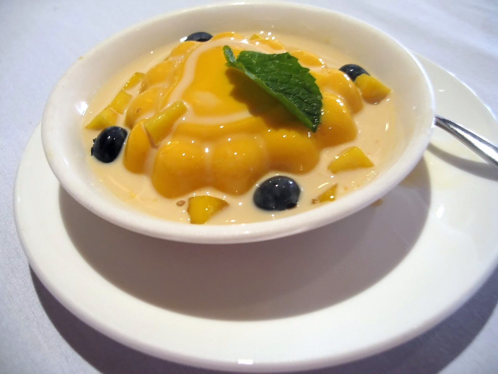 Mango pudding. Taken by Terence Ong in August 2006.